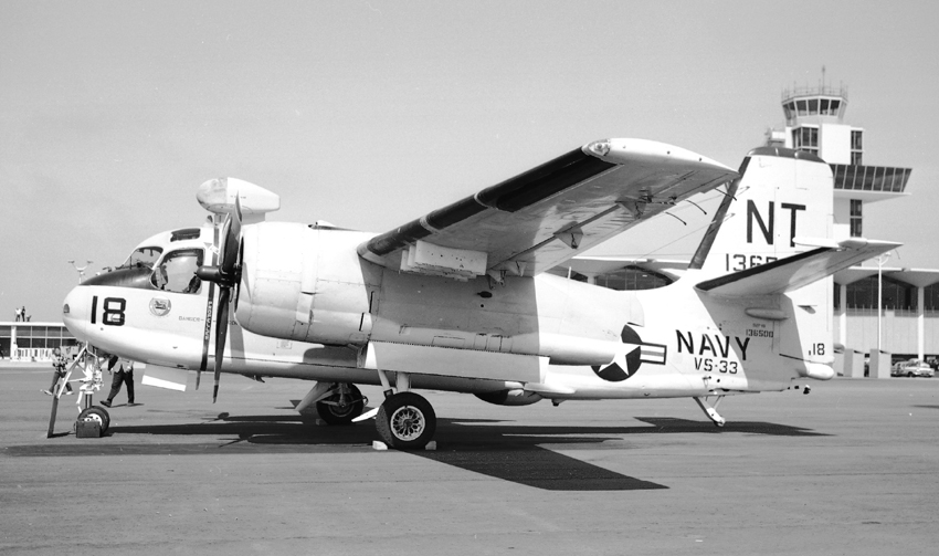 A U.S. Navy Grumman S-2A Tracker (BuNo 136500) of Anti-Submarine Squadron 33 "Screwbirds". VS-33 was assigned to Carrier Anti-Submarine Air Group 59 (CVSG-59) aboard the aircraft carrier USS Bennington (CVS-20).